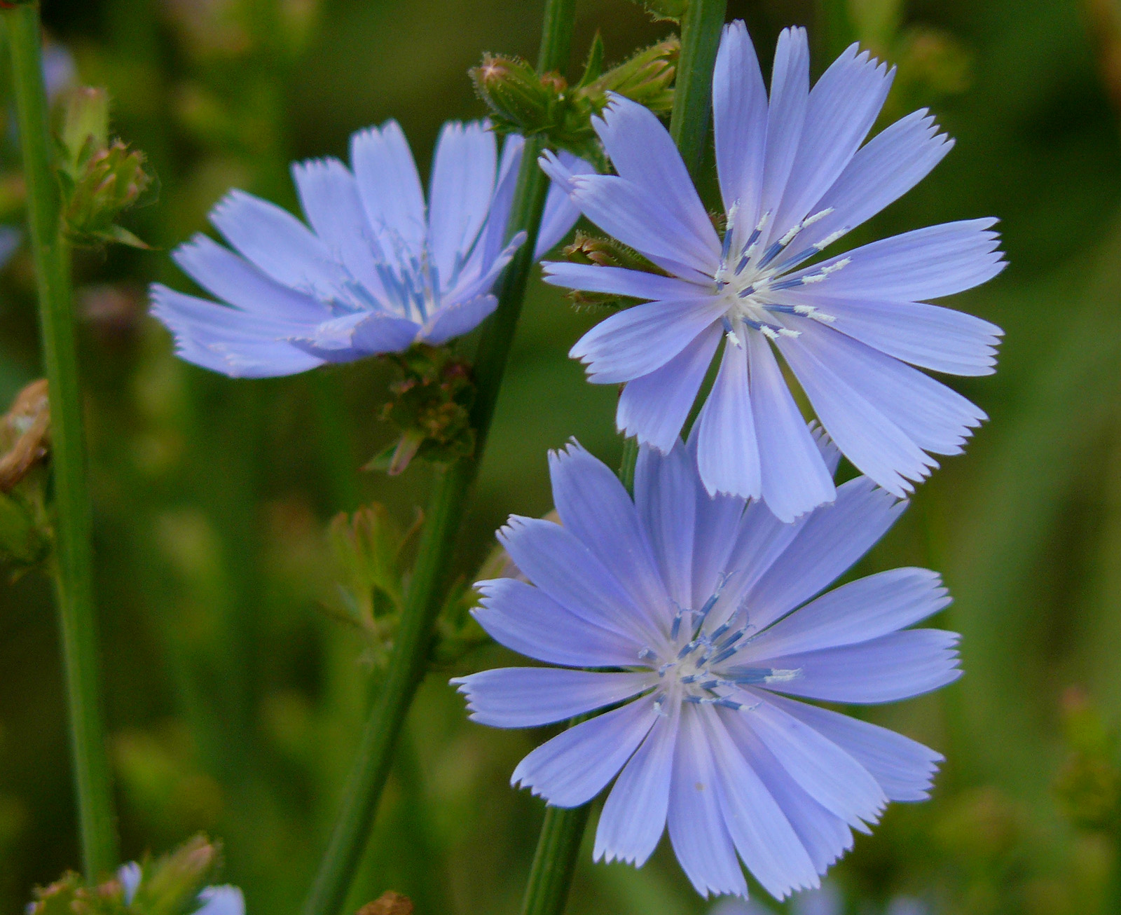 Cichorium intybus on the rhine river in late june